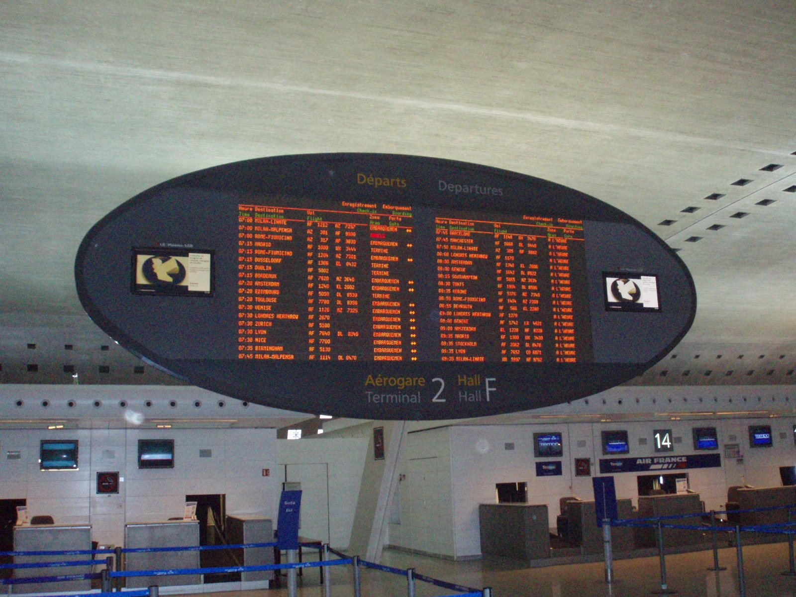 Flight information display system @ Roissy - Charles De Gaulle Airport